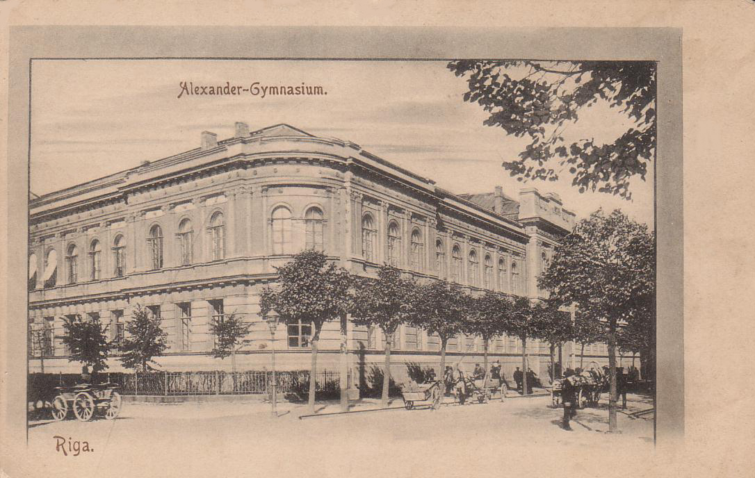 Gimnasium of Alexander in Riga